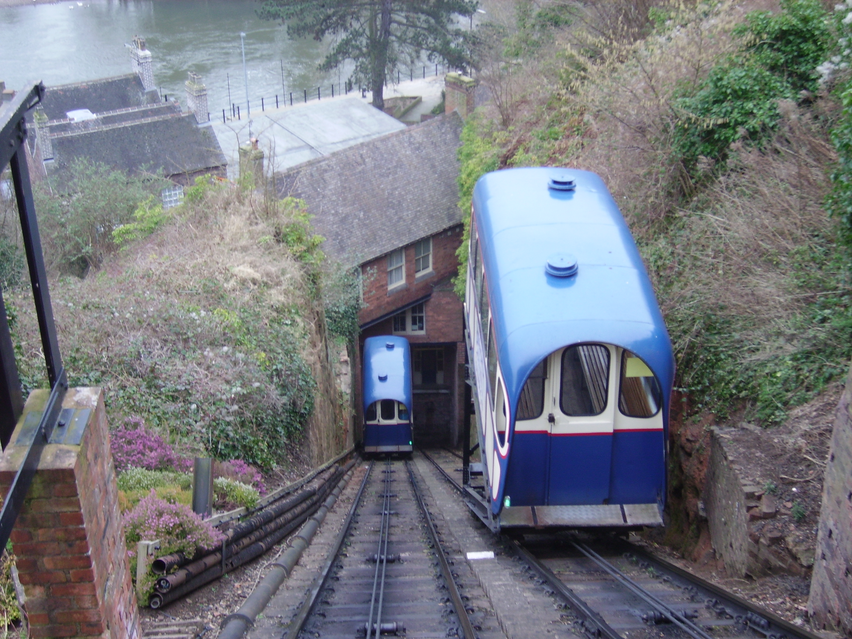 Both carriages in motion